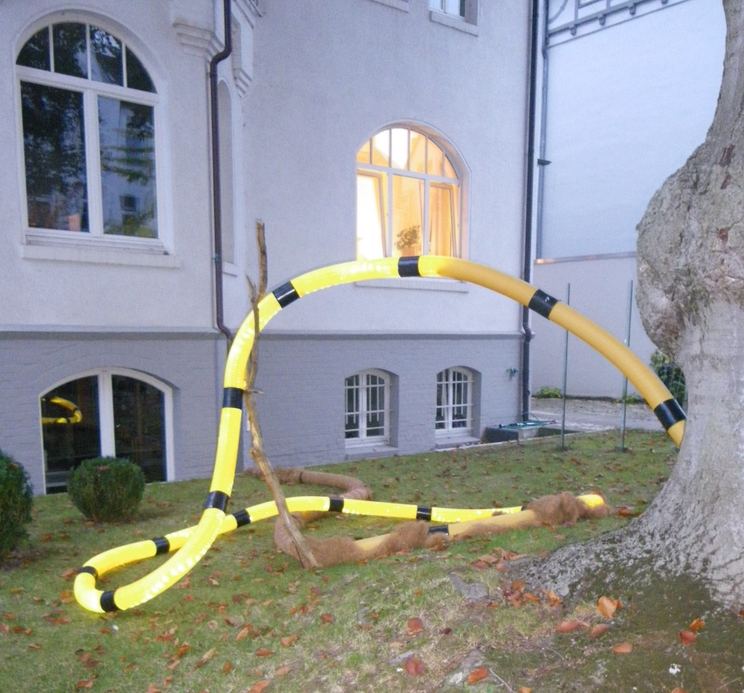 Pablo Hirndorf, Part of Exposition Wintergärten V, Art in public space at Güntherstraße, Hannover